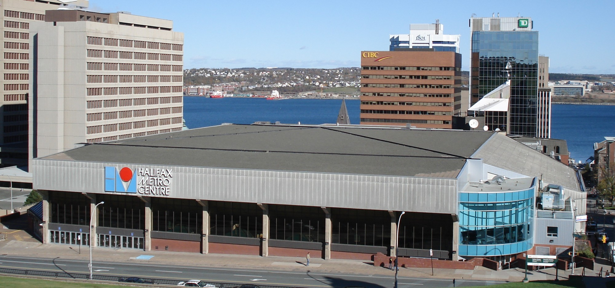 Halifax Metro Centre, October 31, 2006 as seen from Citadel Hill. Picture taken on October 31, 2006 by Bryson109 (myself).